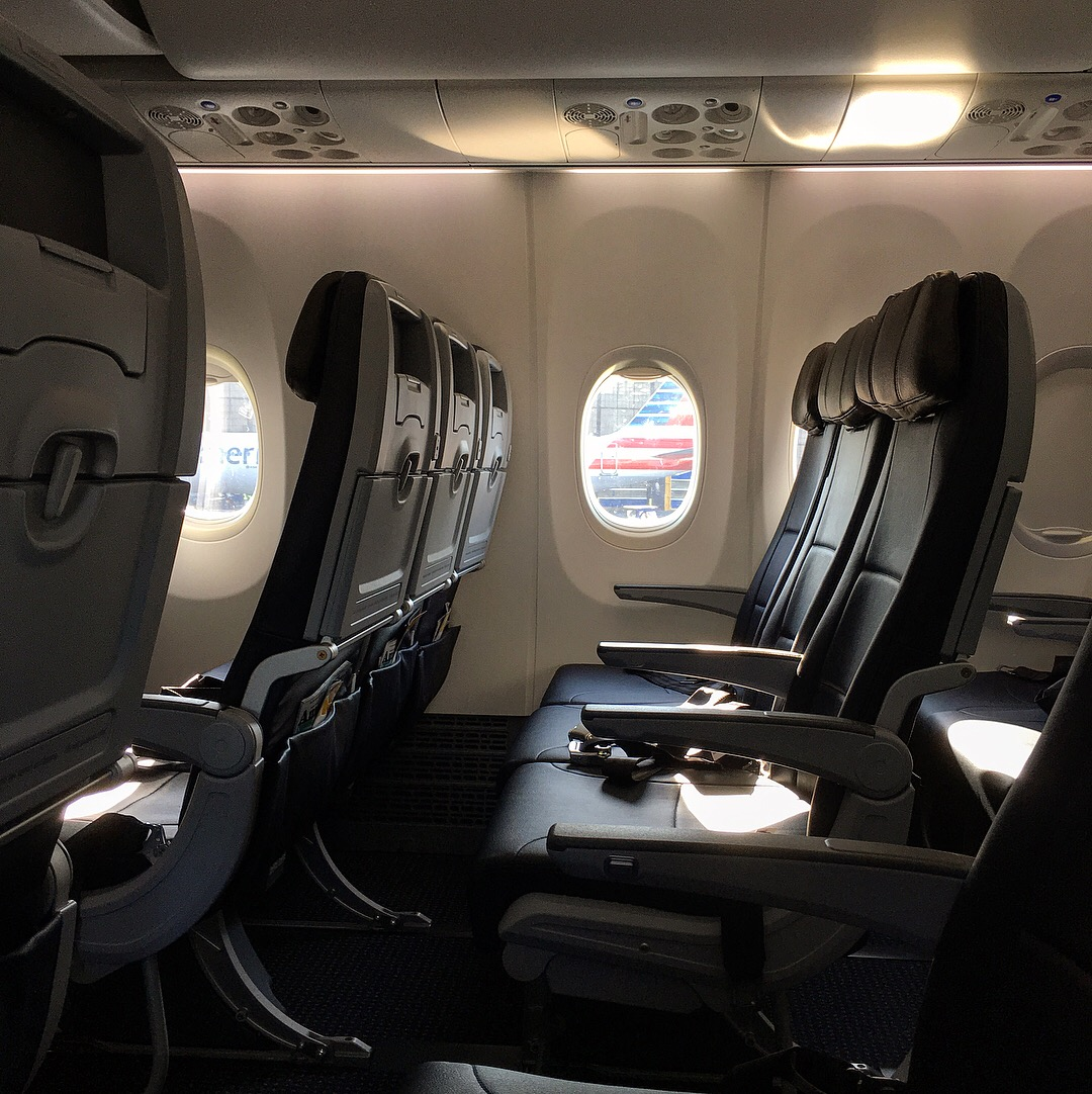 American’s first 737 Max